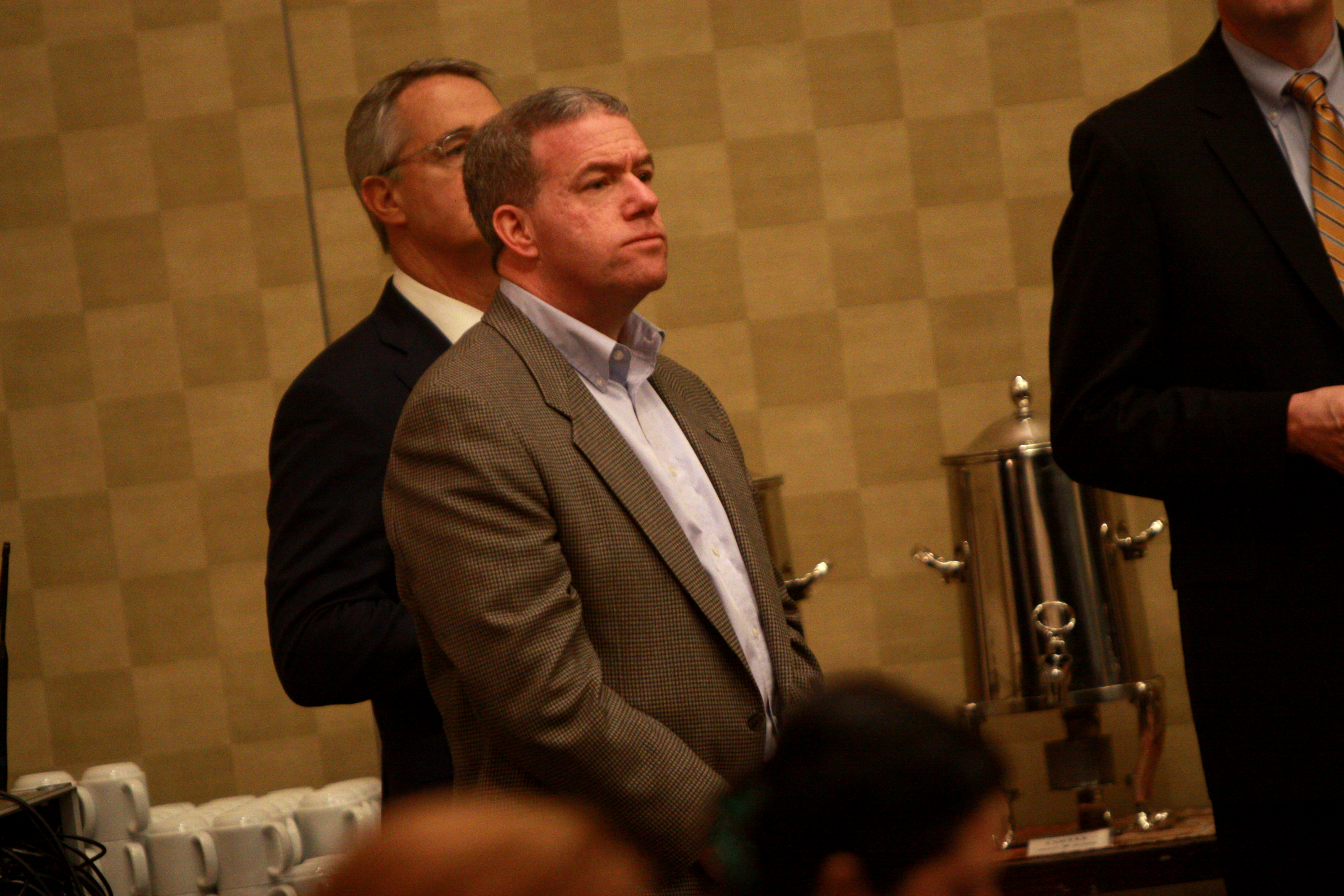 Former Senator Jeffrey Chiesa of New Jersey at an event for Governor Chris Christie hosted by The McCain Institute in Phoenix, Arizona.